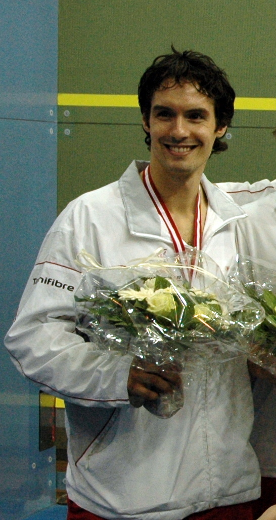 Picture of Morten Sørensen winning bronze with his team Herlev at the danish club championship.